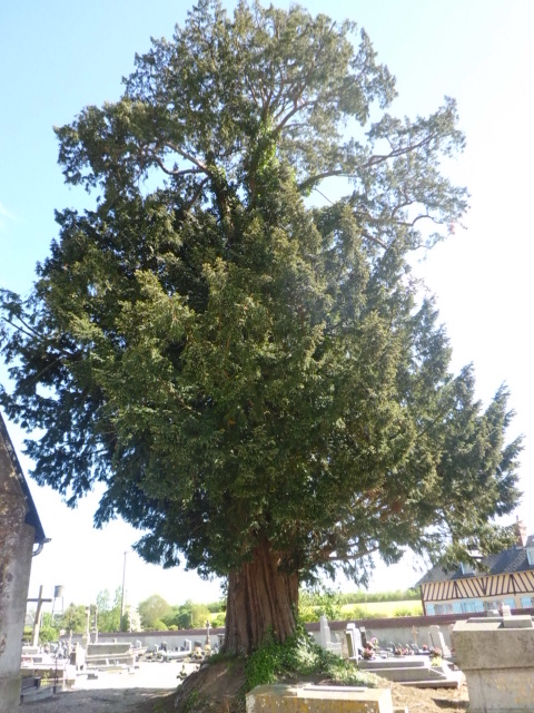 Yew-tree at Le Pin (Normandy)